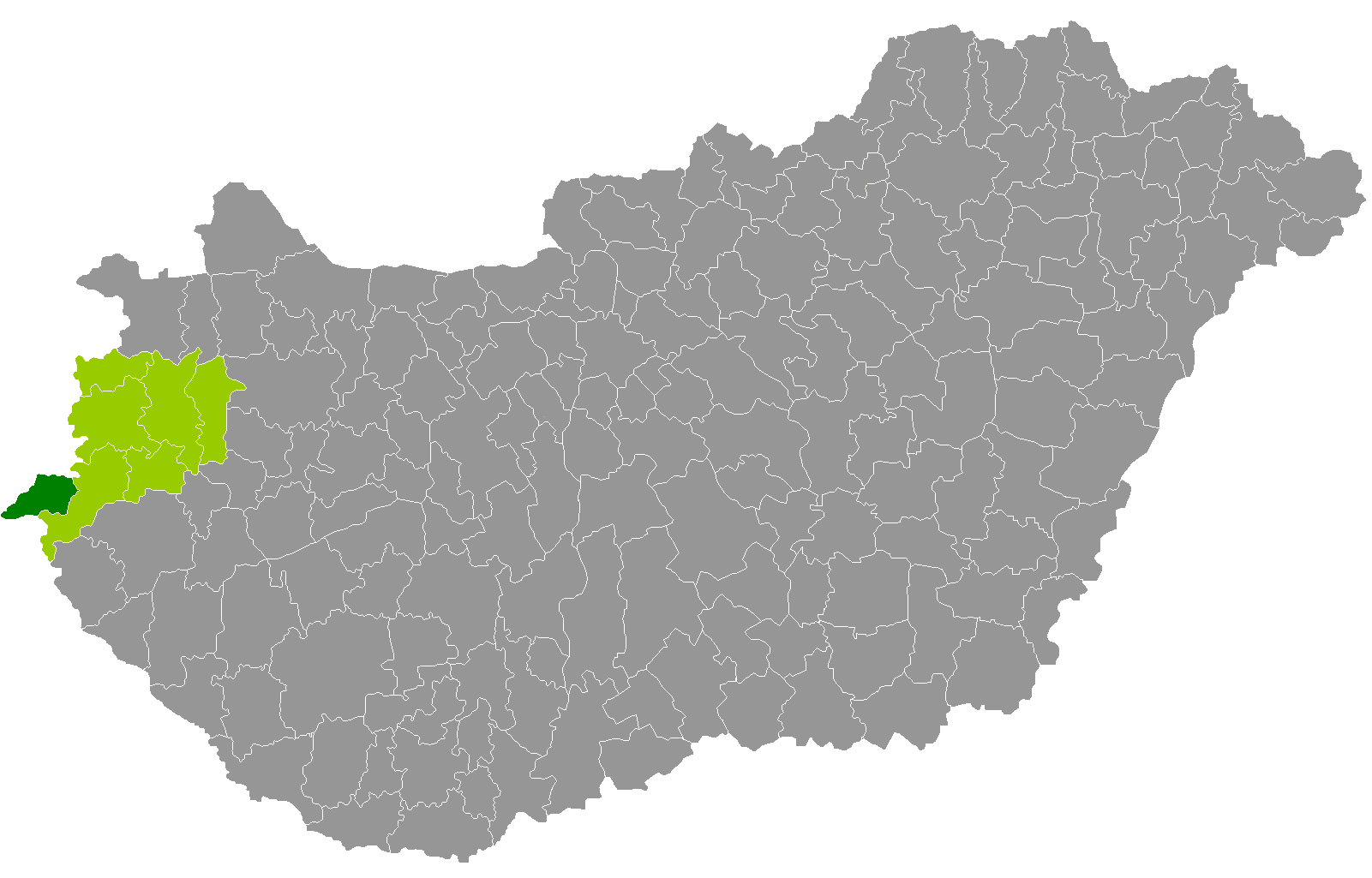 Location of Szentgotthárd District, Vas, Hungary